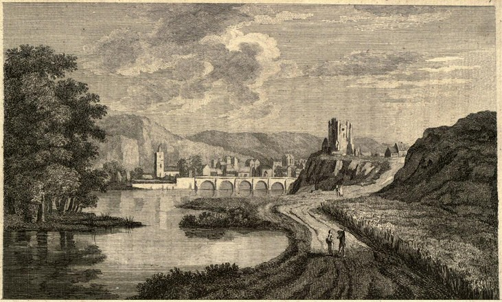 Engraving of a view of Inverness. From A Tour in Scotland MDCCLXIX by Thomas Pennant, printed by John Monk, 1771.